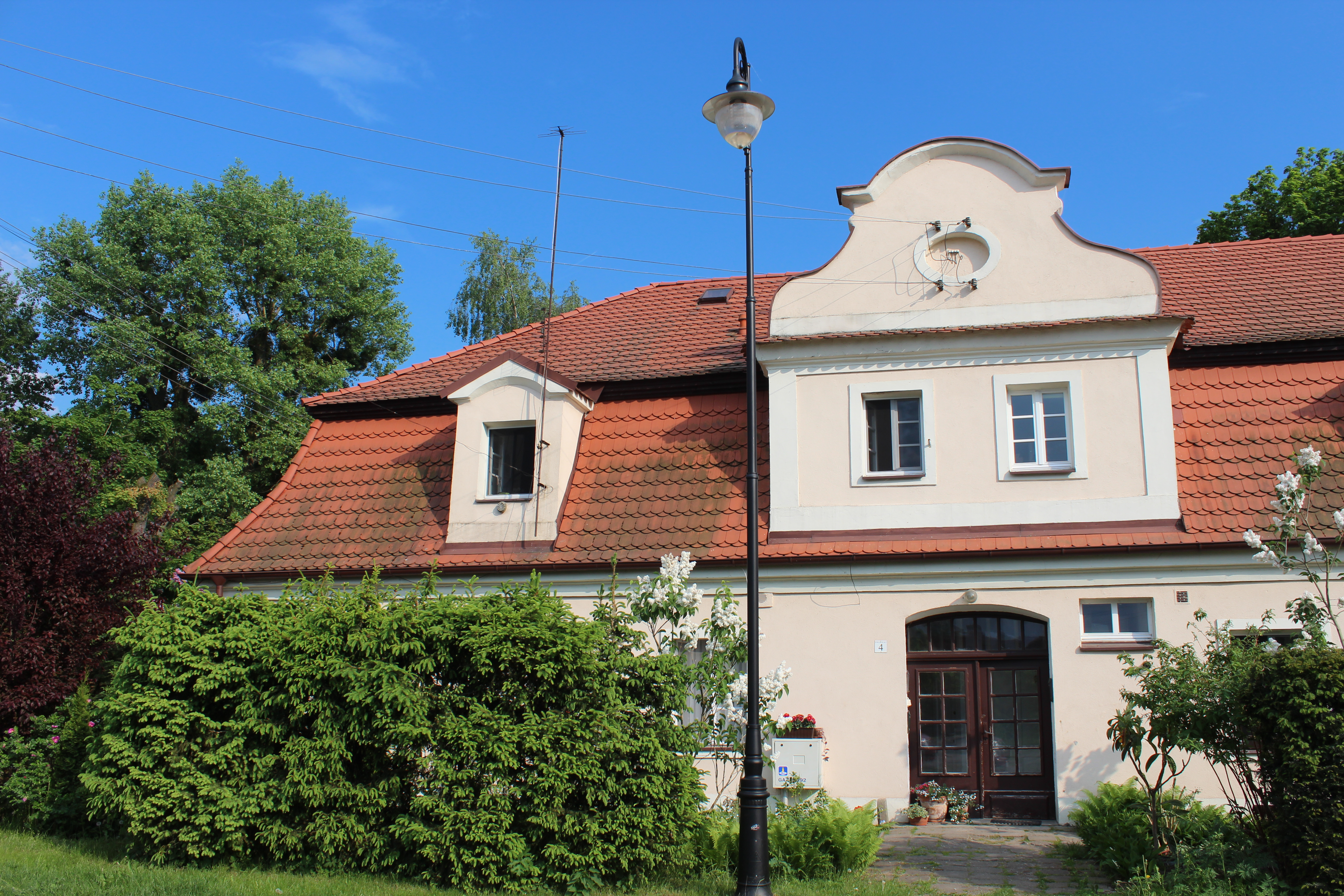 Wisława Szymborska birth house